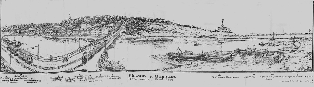 Spilling of the river Tsaritsa at Stalingrad in 1939